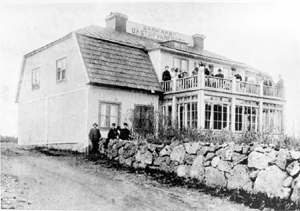 Barkarby court-house in Järfälla in 1900.